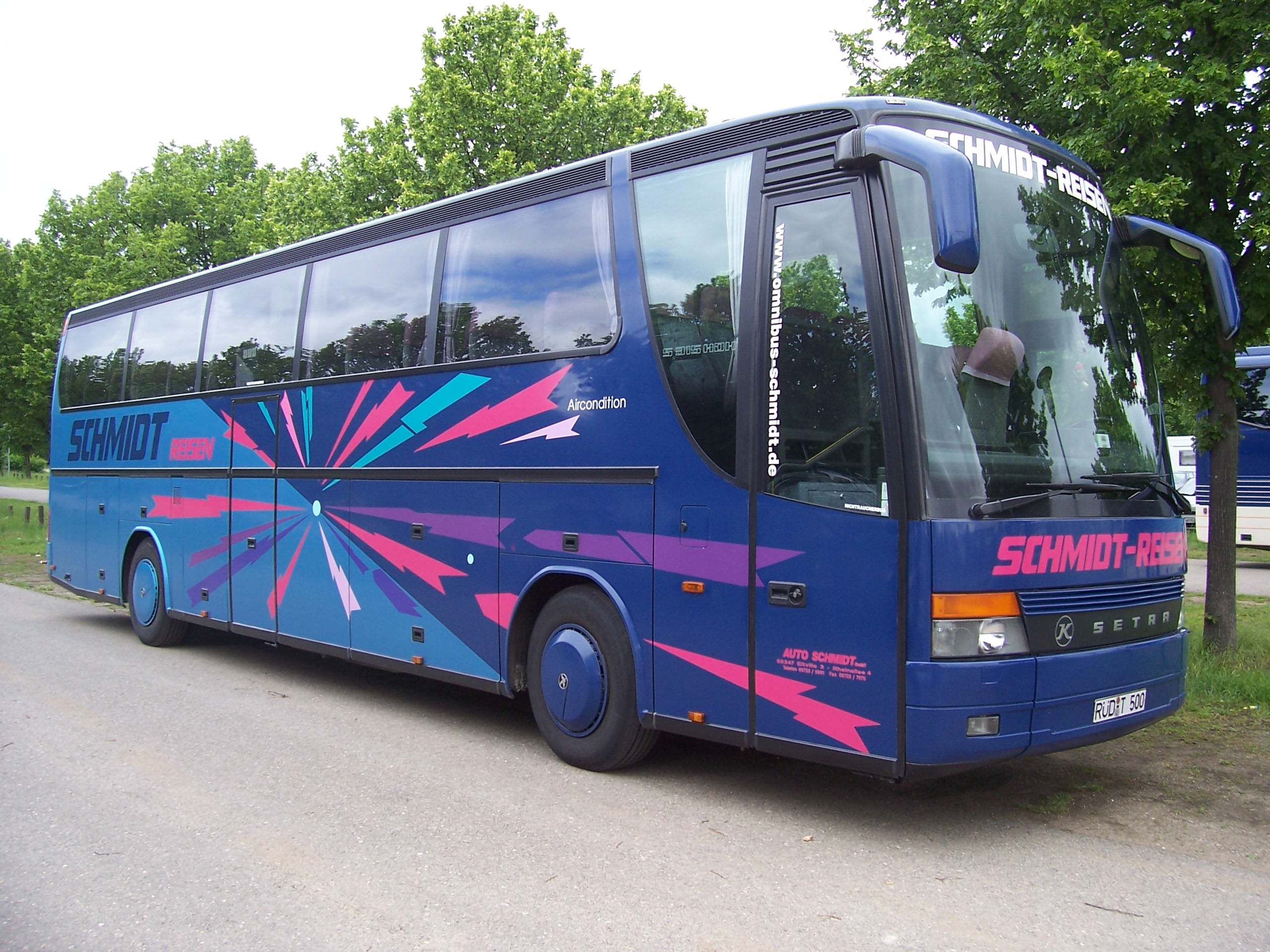 A Setra S 315 HDH coach in Mannheim, germany